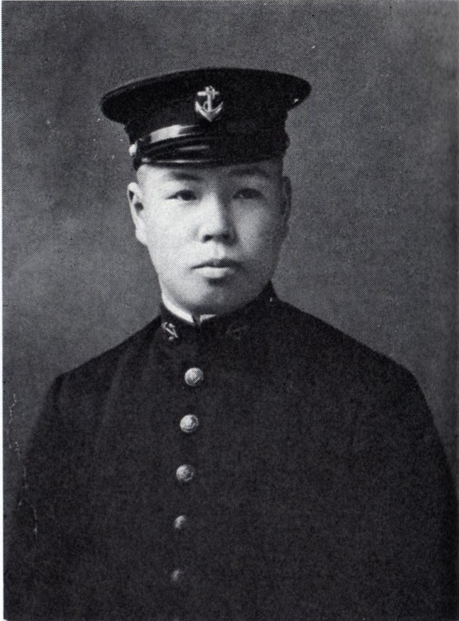 Yamazaki Shigeaki is an Imperial Japanese Navy Vice Admiral